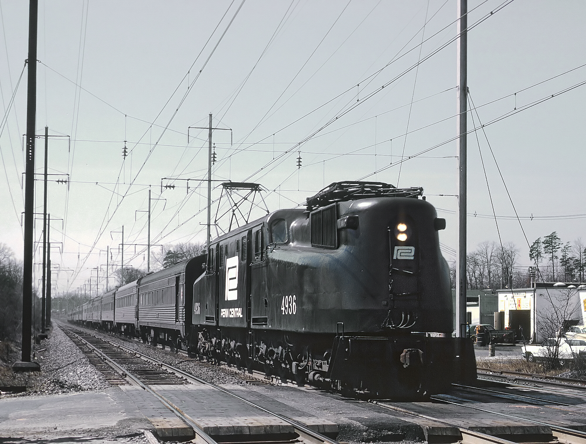 Penn Central GG1 #4936 leads train #128, the northbound Silver Star, through Seabrook station in March 1969